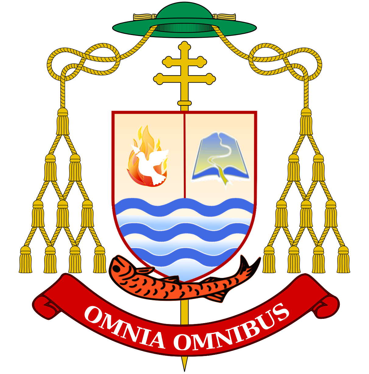 Coat of Arms of Archbishop Nicholas Chia